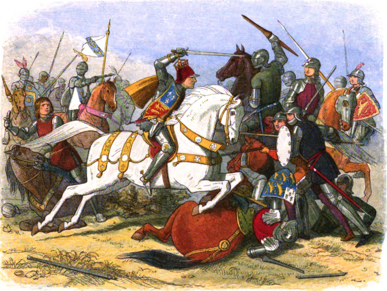 Richard III in action at the Battle of Bosworth Field.